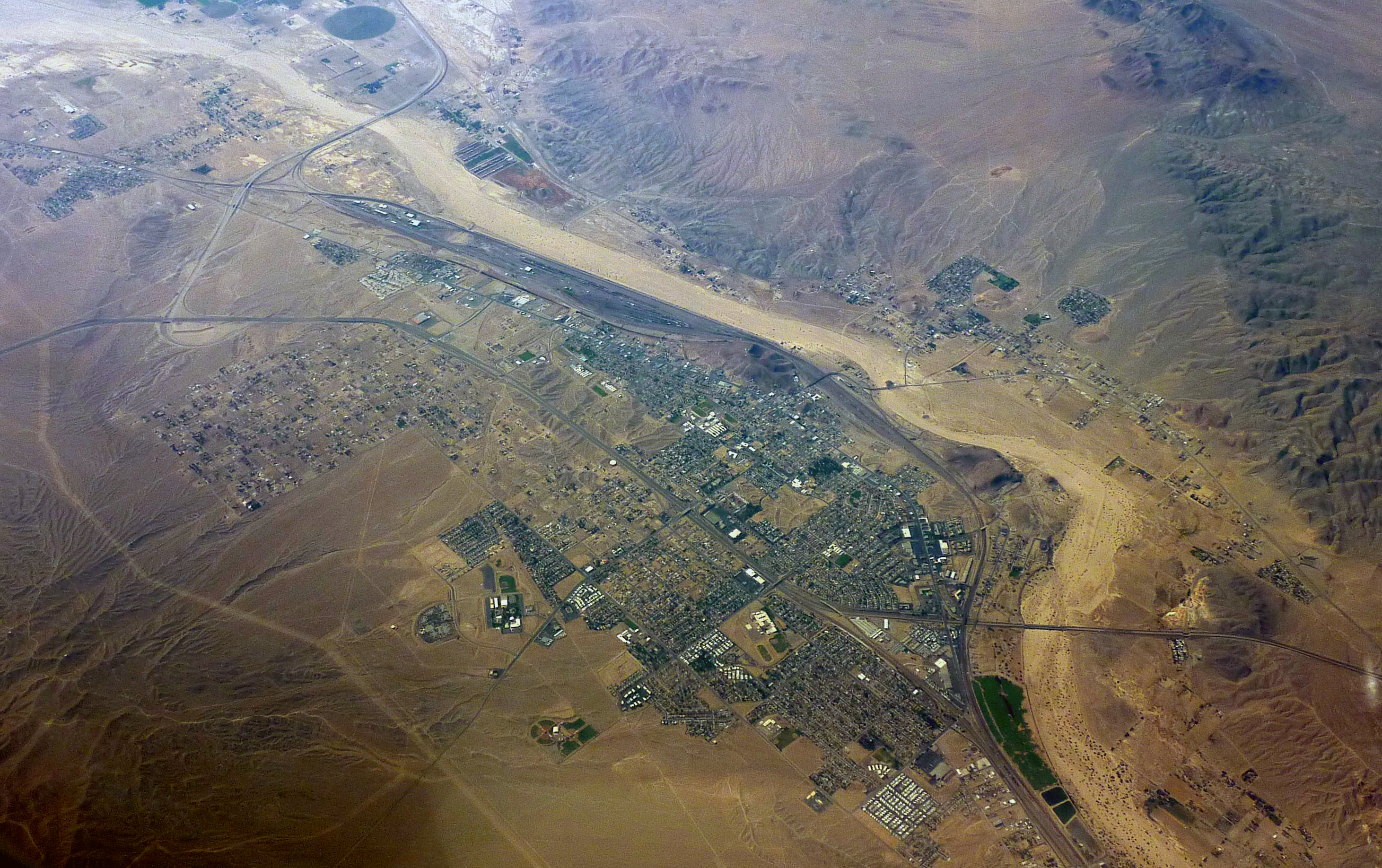 Aerial view of Barstow — in the Mojave Desert, San Bernardino County, California.